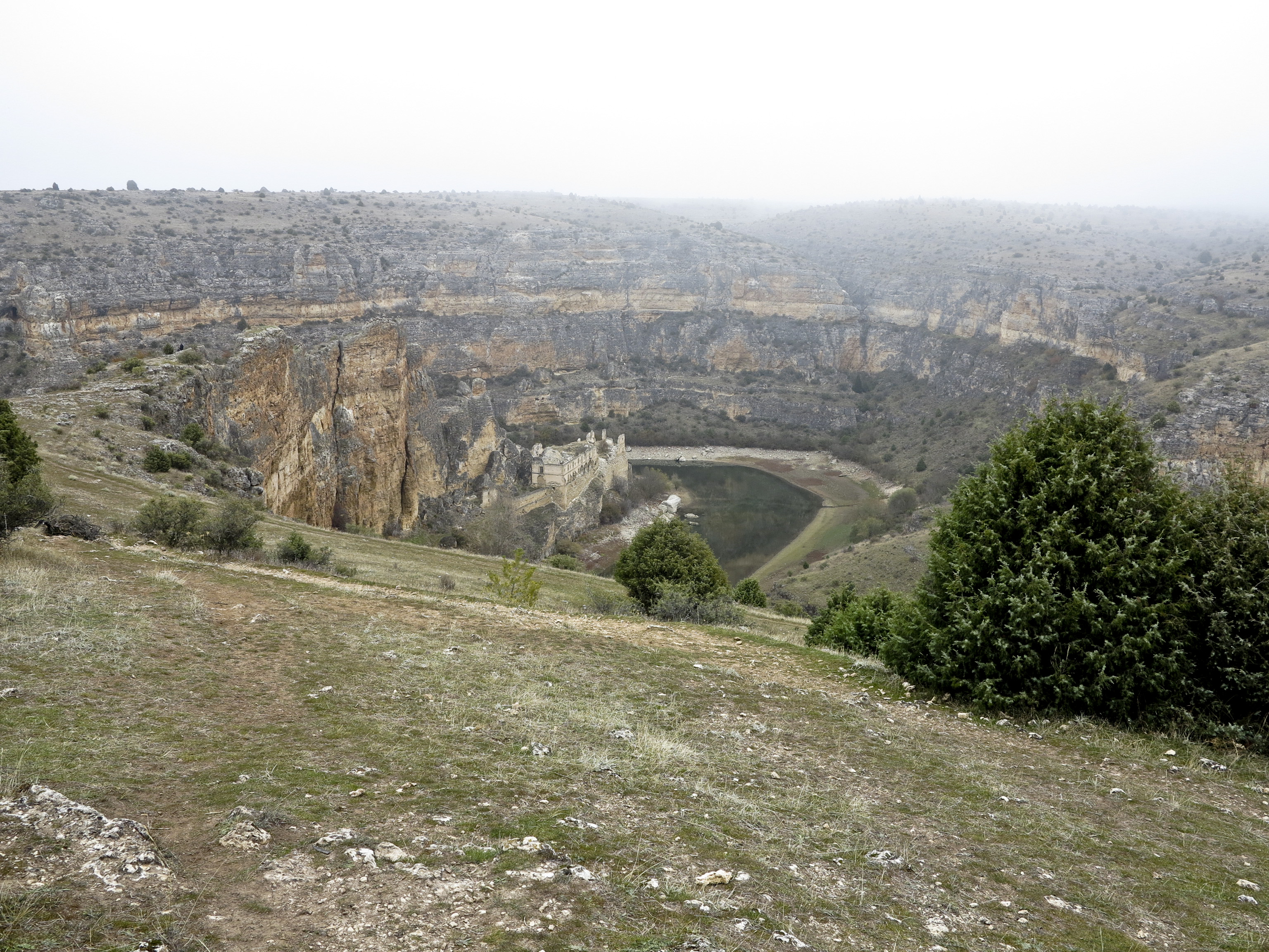 Monasterio de Nuestra Señora de la Hoz/Convento de la Hoz. Hoces de Duraton, Sepúlveda, Provincia de Segovia, Castilla y León, Spain.